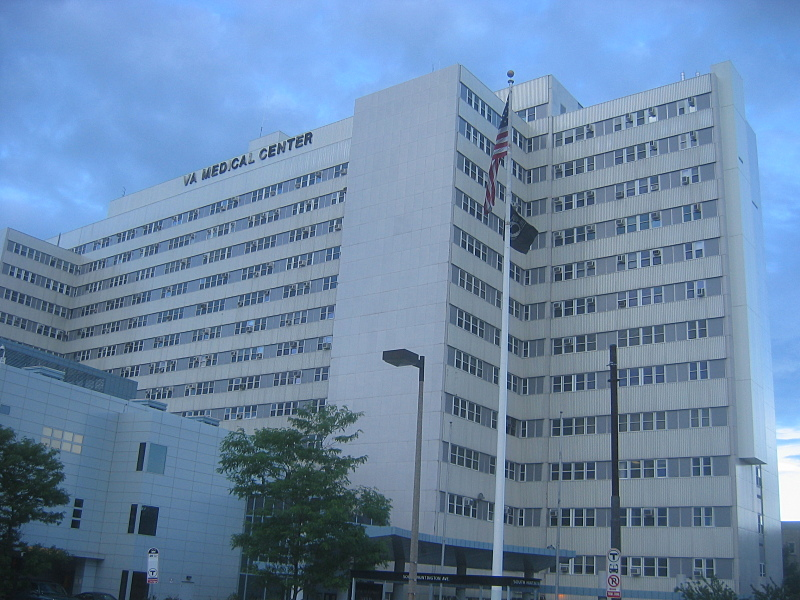 VA Medical Center, Boston, MA.